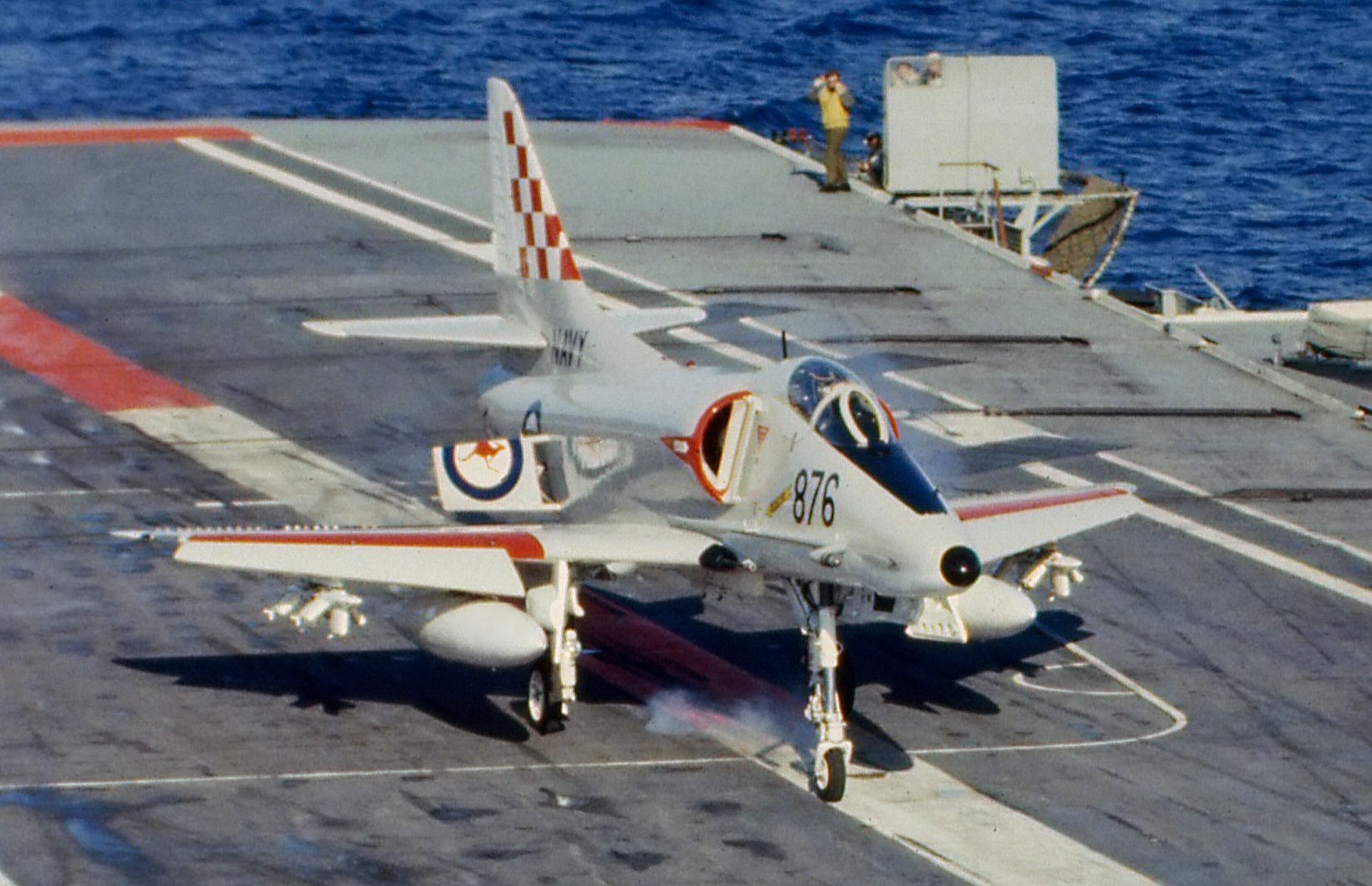 A Royal Australian Navy Douglas A-4G Skyhawk lands on the Australian aircraft carrier HMAS Melbourne (R21) in 1980. This Skyhawk was originally delivered to the U.S. Navy as A-4F BuNo 155063. It served in Vietnam on the USS Ranger (CVA-61) with attack squadron VA-155 Silver Foxes from 26 October 1968 to 17 May 1969 (Attack Carrier Air Wing Two (CVW-2)/NE-416), and on the USS Hancock (CVA-19) with VA-212 Rampant Raiders from 02 August 1969 to 15 April 1970 (CVW-21/NP-4XX). 155063 was then delivered to the Royal Australian Navy in August 1971 as A-4G N13-155063, No. 876. It was unloaded from HMAS Sydney onto RAN lighter AWL 304 at Jervis Bay on 11 August 1971, then transported by road to the RAN base Nowra. It served with RAN fighter squadron VF-805 starting on 13 May 1974. "876" was deployed on board HMAS Melbourne for the "Spithead Deployment" from 28 April to 04 October 1977. There, it took part in exercise "Highwood" from 5 to 20 July 1977 in the North Sea. Other exercises included "Tasmanex '79", "Kangaroo 3", and "Sandgroper '80" (25 August - 5 September 1980) off the Western Austrailian coast. "876" was withdrawn from RAN service on 30 June 1983 and stored for sale. In July 1984 it was delivered to the Royal New Zealand Air Force (RNZAF) as NZ6217, designated A-4K. It received the "Kahu"-upgrade and was retired by the RNZAF in 2001/2002. [1]